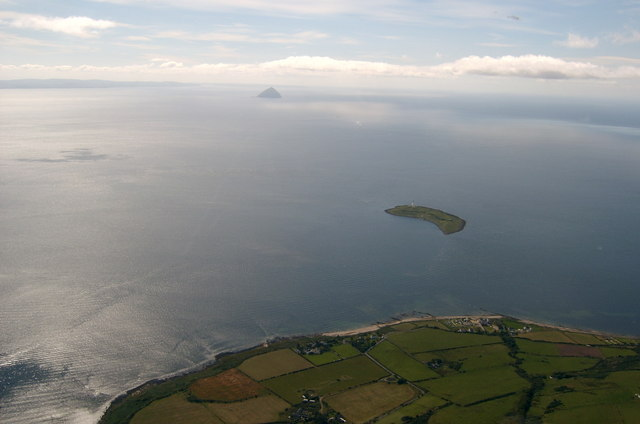 Kildonan in the south of Arran, the island of Pladda & the rocky massif of Ailsa Craig from the air